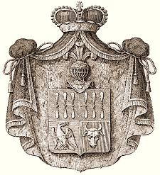 Coat of Arms of the Ghica family / Prince Alexandru II Ghica of Wallachia.